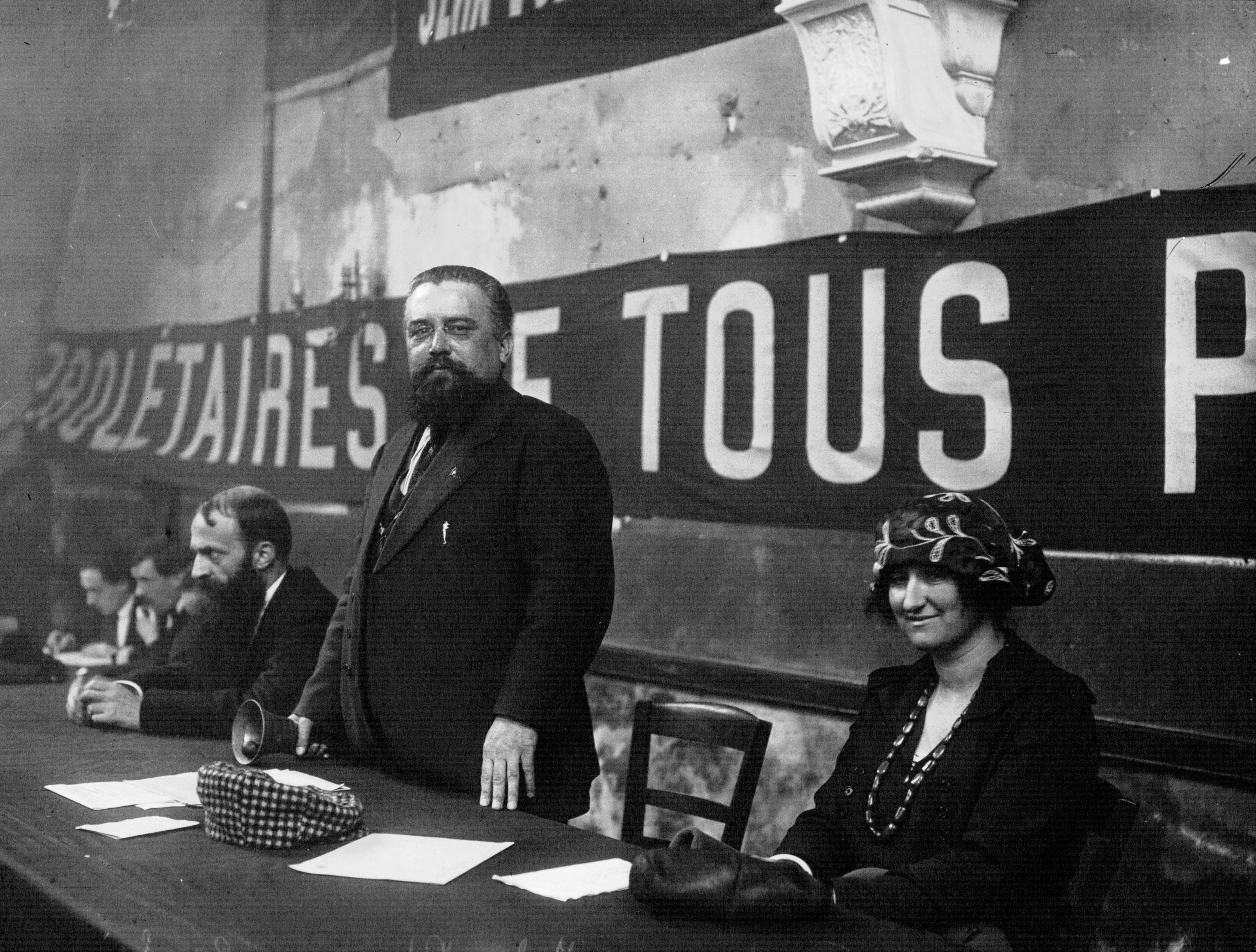 The constitutive Congress of the French Communist Party, Tours, 1920. Jules Blanc, the President, standing, flanked by his secretaries: "Citizen Paoli" and Yvonne Sadoul, wife of the Comintern's Jacques Sadoul. Behind them a large banner reading Prolétaires de tous les pays, unissez-vous! ("Proletarians of all countries, Unite!").